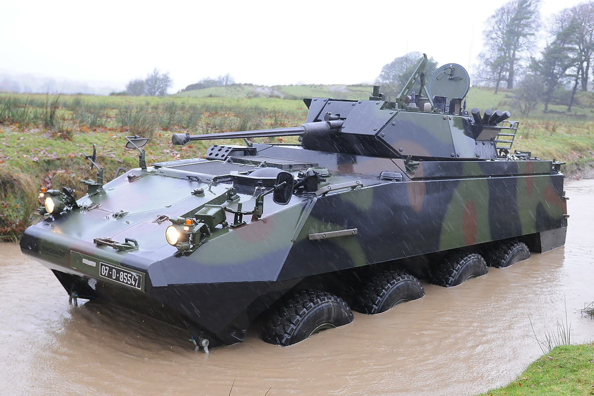 Mowag during the Cross Country driving exercise